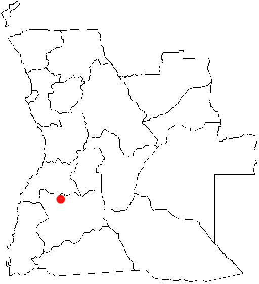 Caluquembe, Angola Location Map; created with the GIMP. Made by User:Acntx.